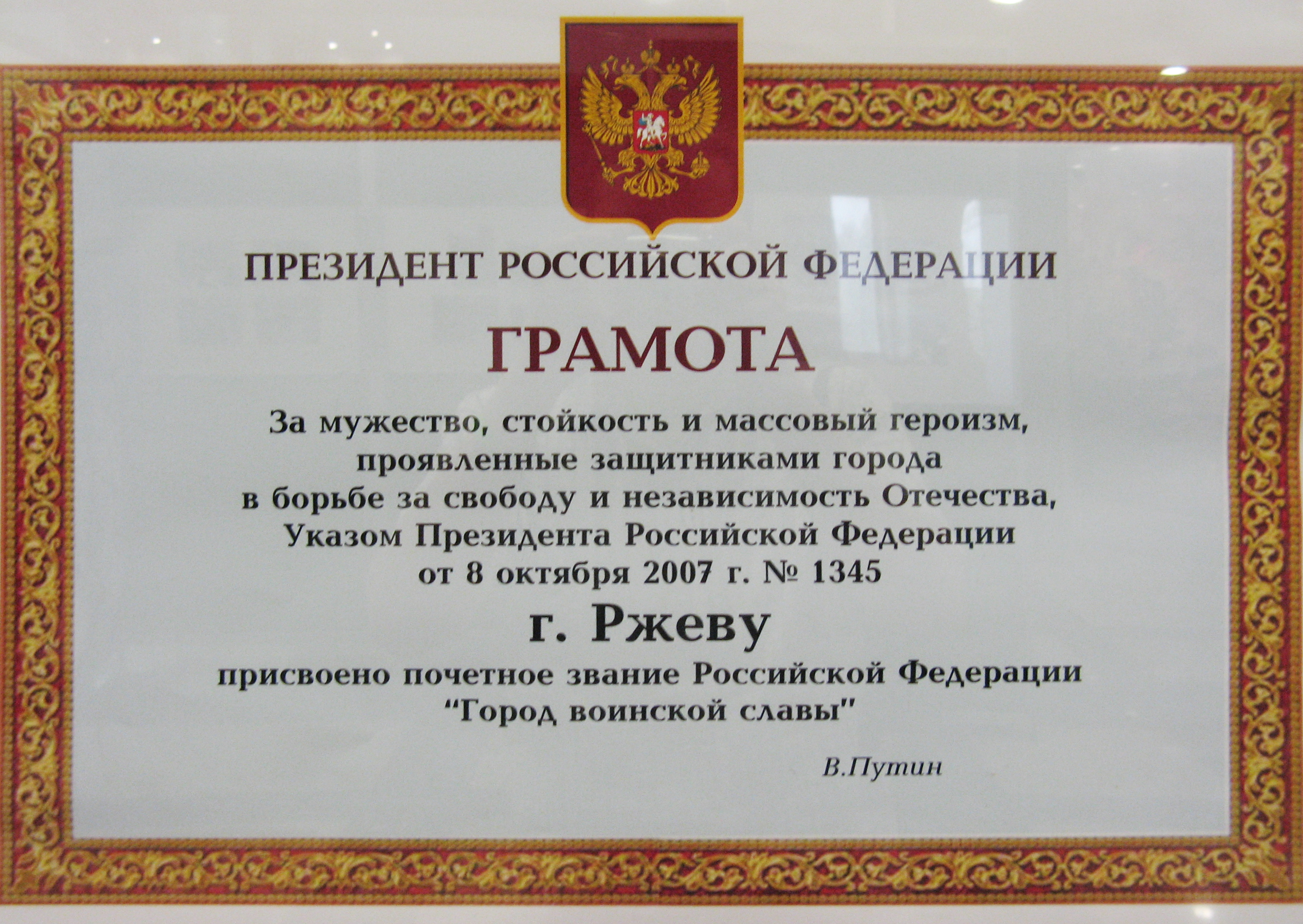 document of military glory town for Rzhev